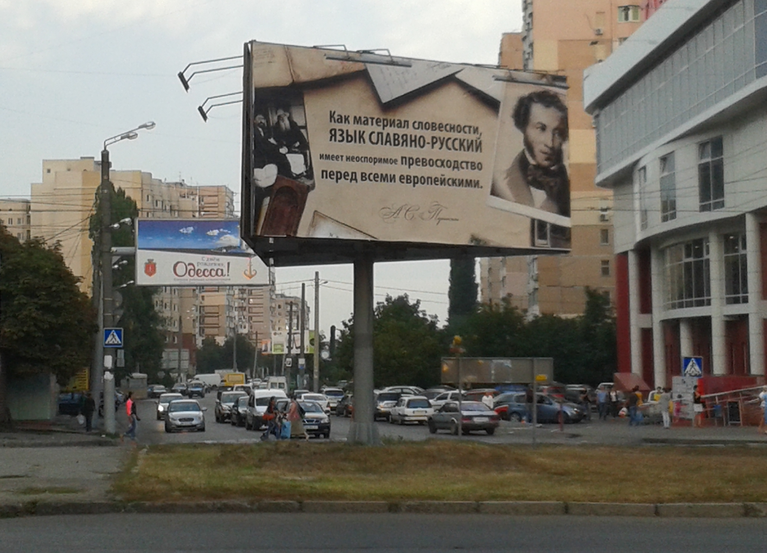 Propaganda of supremacy of the Russian language in Odesa, Ukraine. Used expression of Alexander Pushkin: "As the material of literature, Slavic-Russian language has a distinct supremacy over all the European".